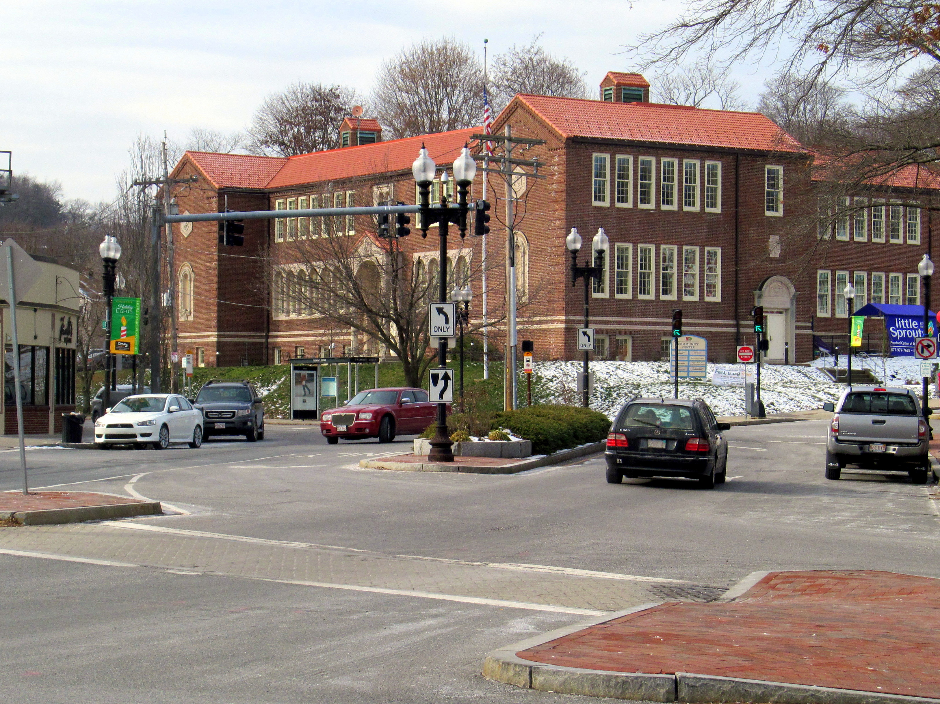 Former location of Oak Square stop on the Green Line "A" Branch, closed in 1969